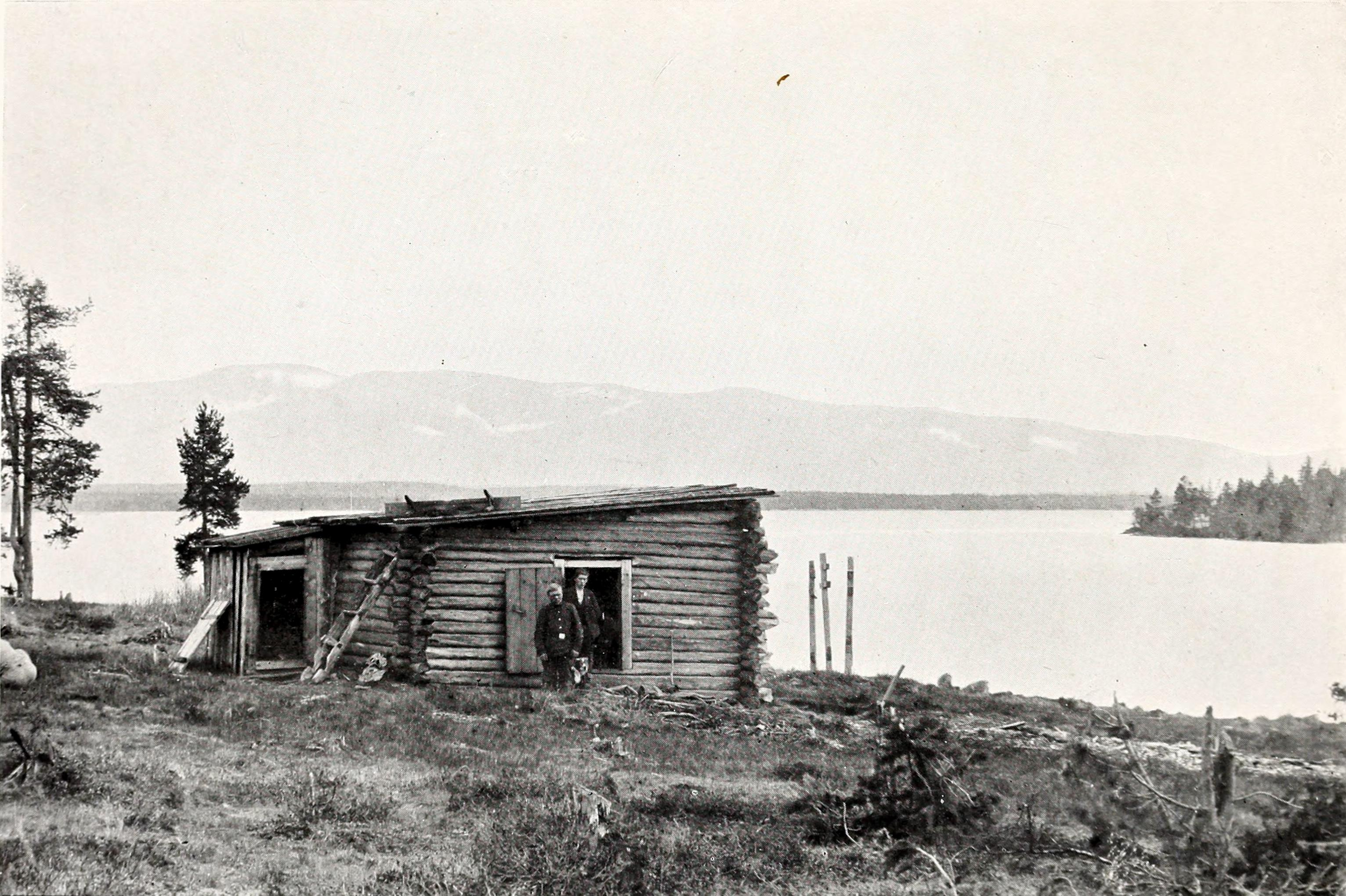 Three summers among the birds of Russian Lapland /